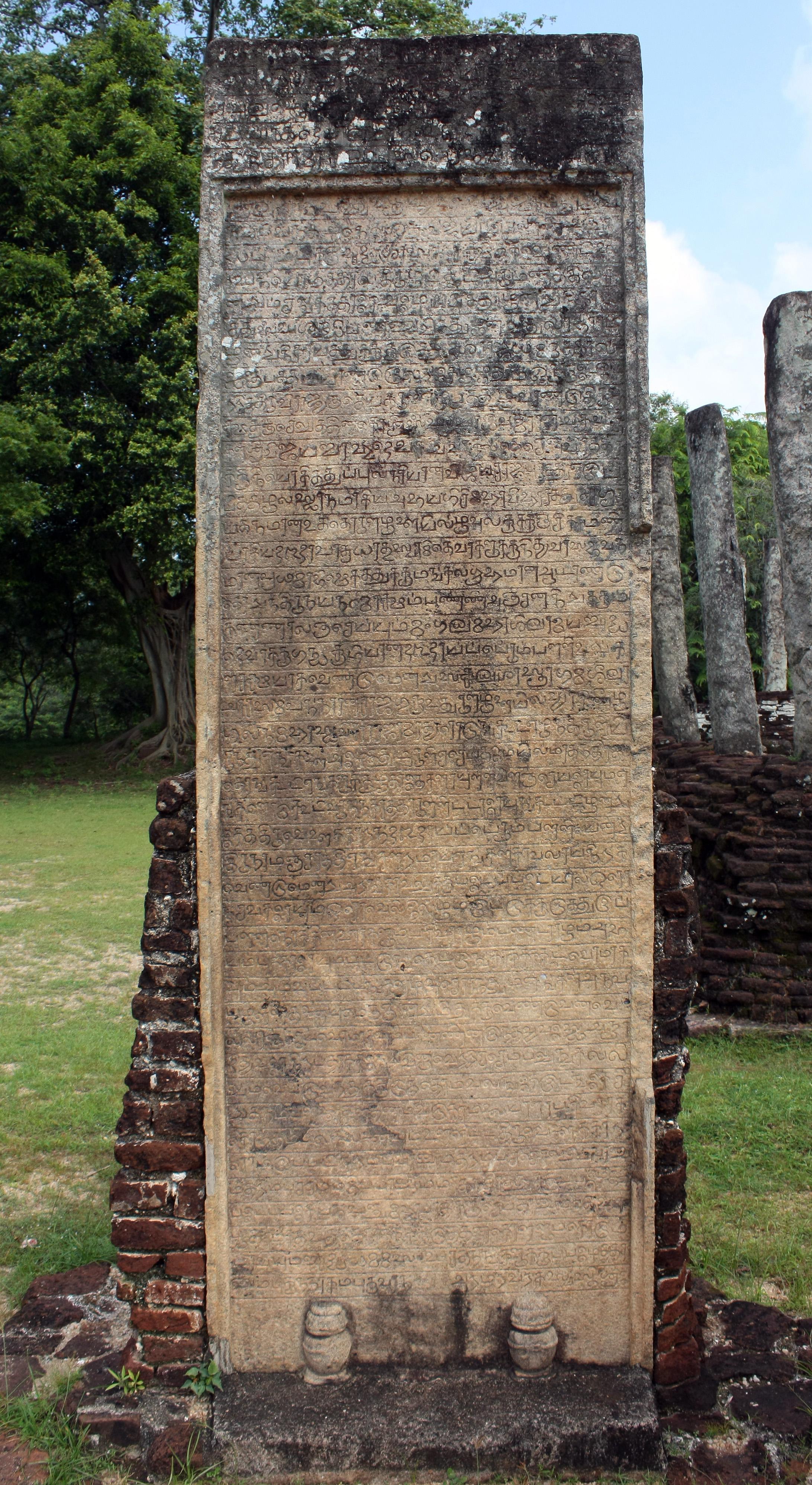 Polonnaruwa Velaikkara Slab Inscription. This Polonaruwa inscription is really interesting; it is Vatteluttu script (Tamil) with Grantha script for Sanskrit words, as was a common style historically.